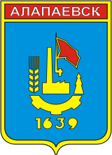 Alapaevsk (Sverdlovsk oblast), coat of arms (1967)